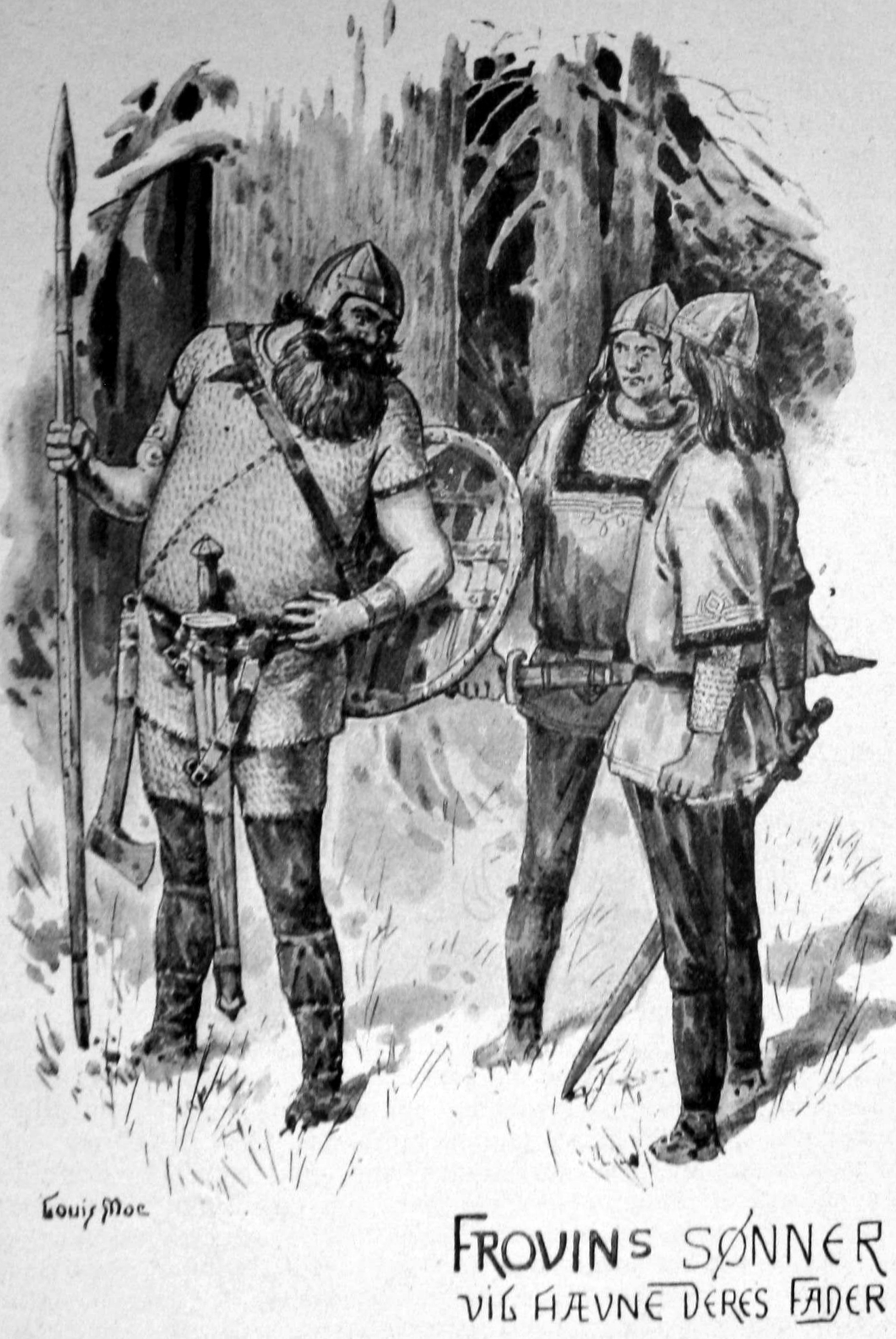 Frovins_Sønner_vil_hævne_deres_Fader. Ket and Wig talk with Athisl in the wood. See Elton's translation